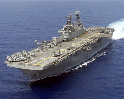 USS Wasp (LHD-1) underway.